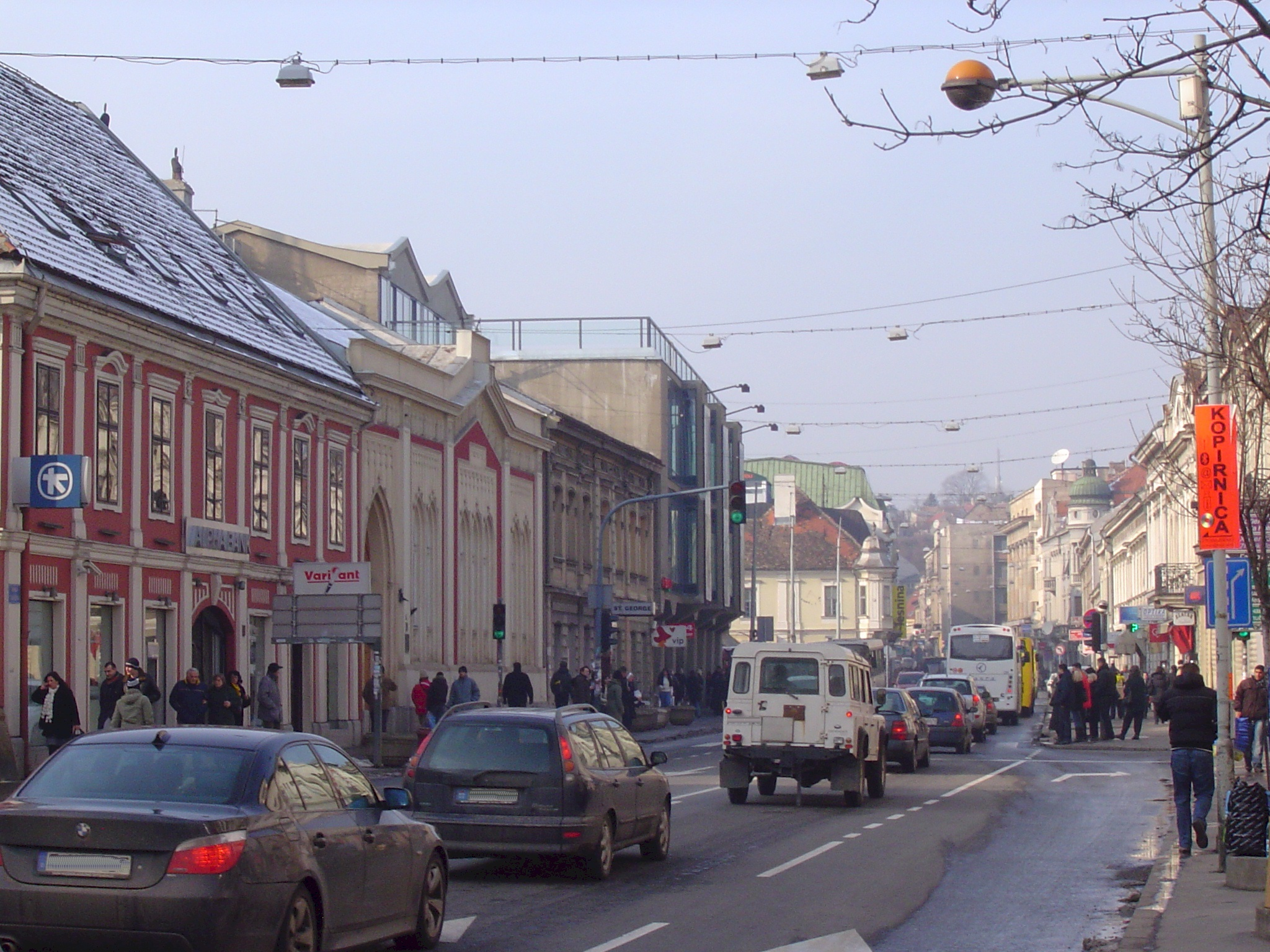 Zemun's Glavna (Main) Street, in winter.